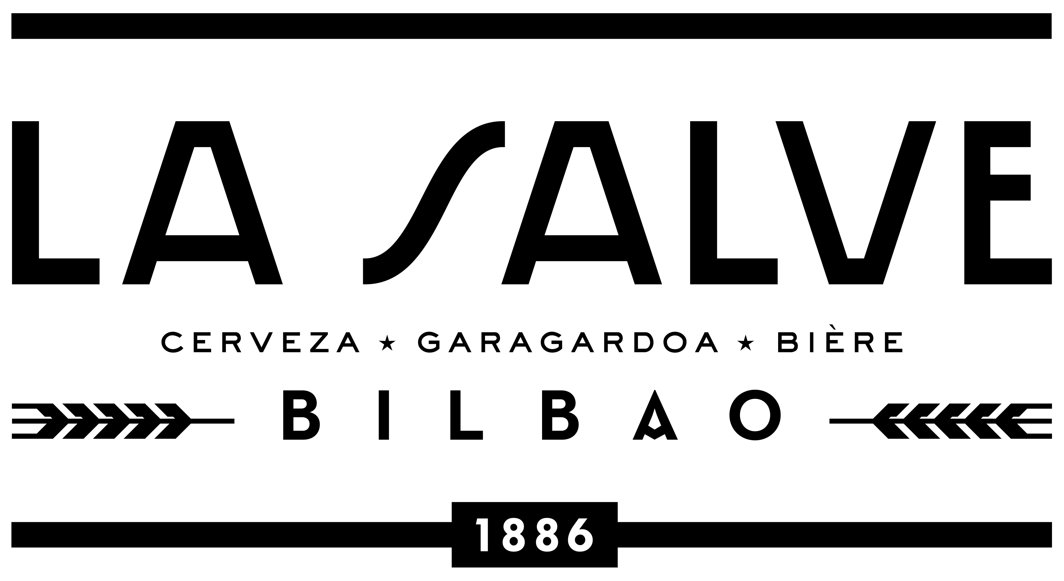 La Salve Bilbao logo